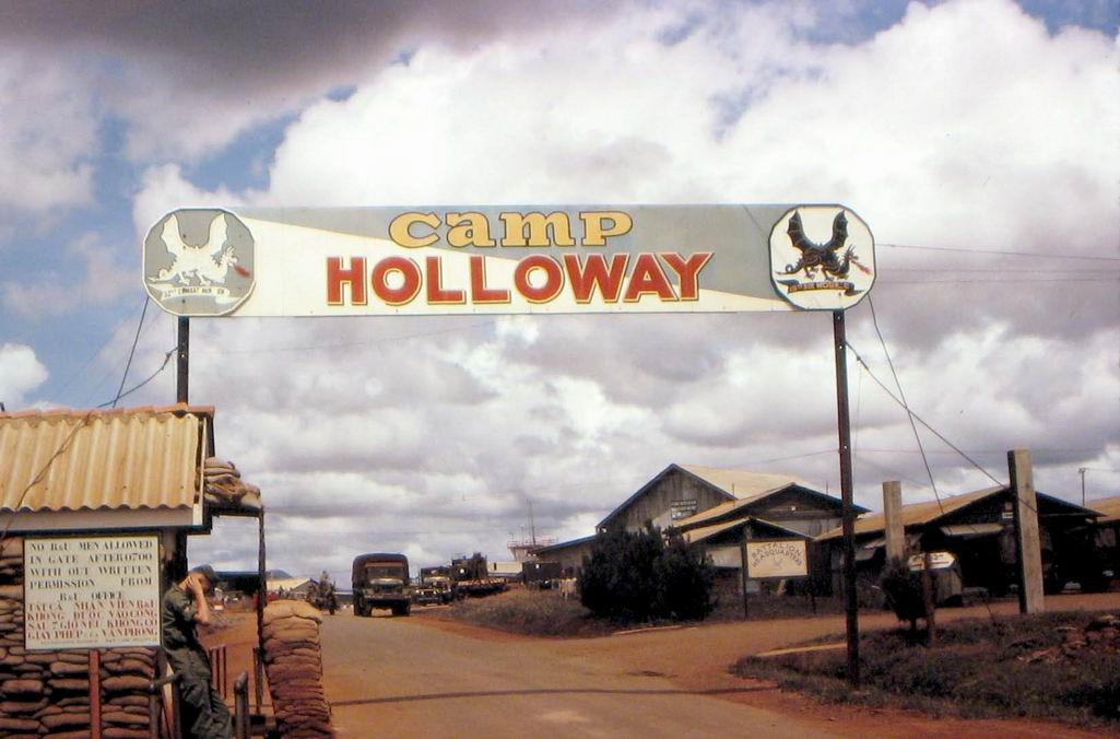 Camp Holloway was established in 1962 to support allied military operations in II Corps Tactical Zone, South Vietnam. On 7 February 1965, it was the subject of an attack by the Viet Cong 409th Battalion.